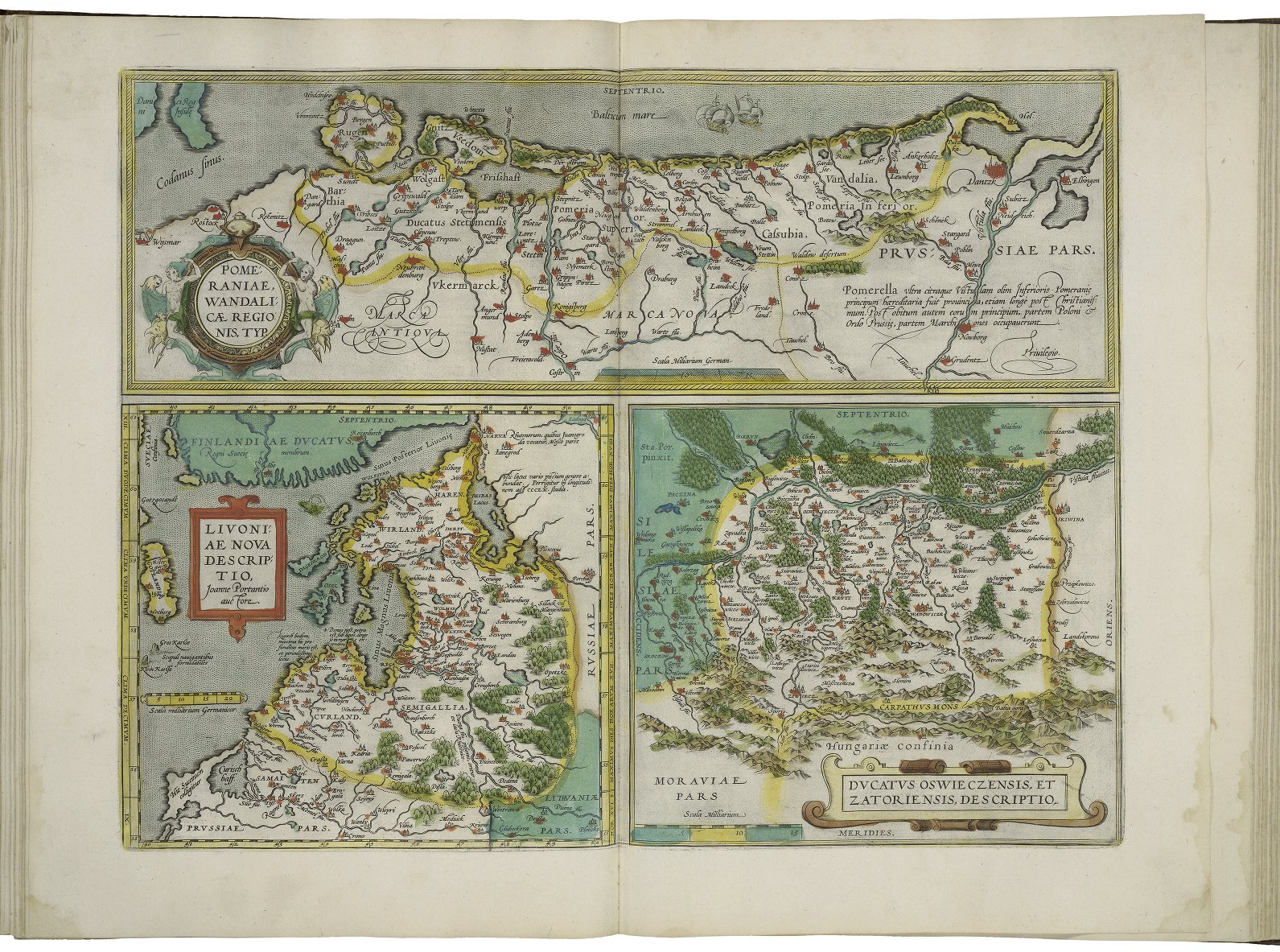 Maps of Pomerania, of Livonia, and of the Duchy of Oświęcim and Zator by Abraham Ortelius. Theatrum Orbis Terrarum. London, 1606 (i.e. 1608?). Plate 100.